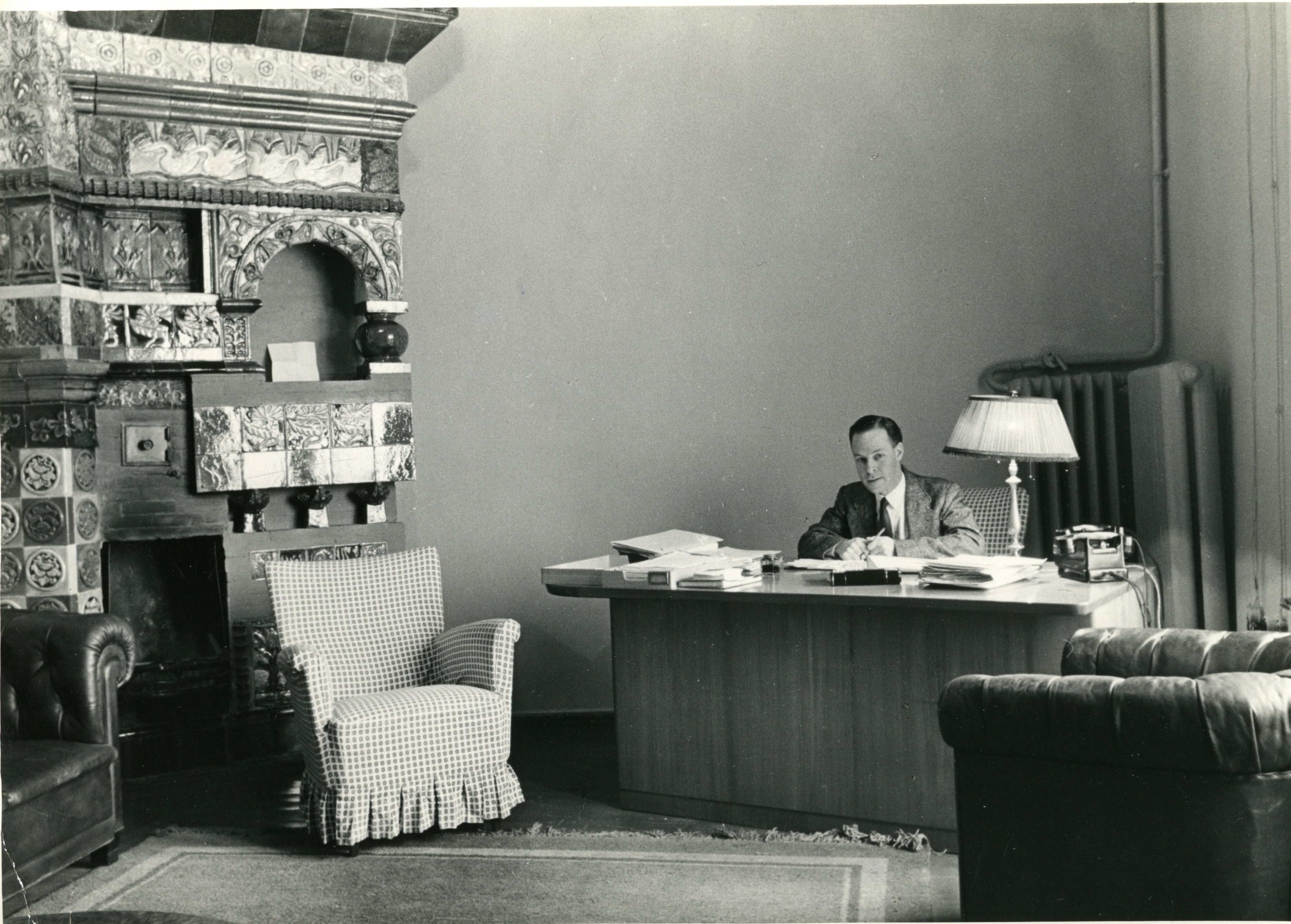 Mr Noël Deschamps, in his office. Mr Deschamps was Australian Charge d'Affaires, Moscow, 1947–1949.